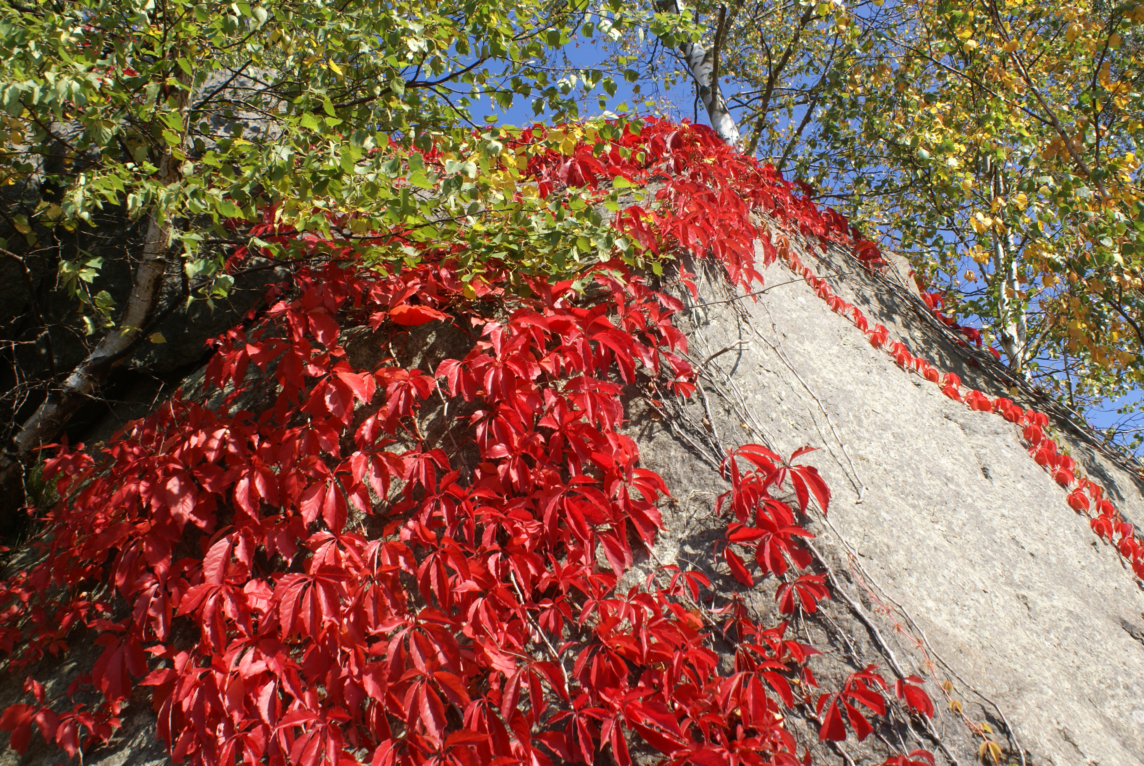 Parthenocissus quinquefolia